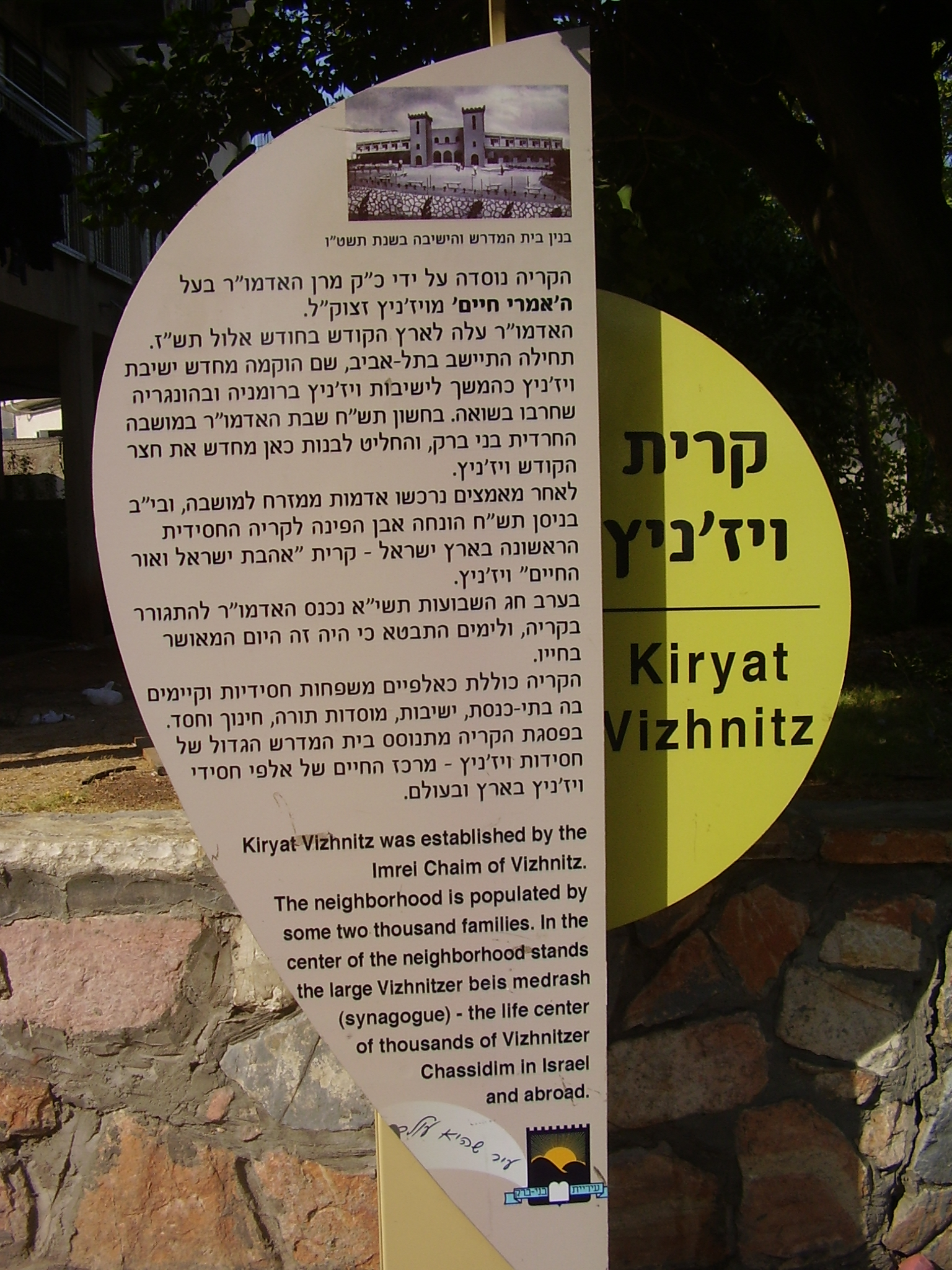 kiryat vizhnitz in bnei brak, israel שלט הסבר בכניסה לקריית ויז'ניץ בבני ברק